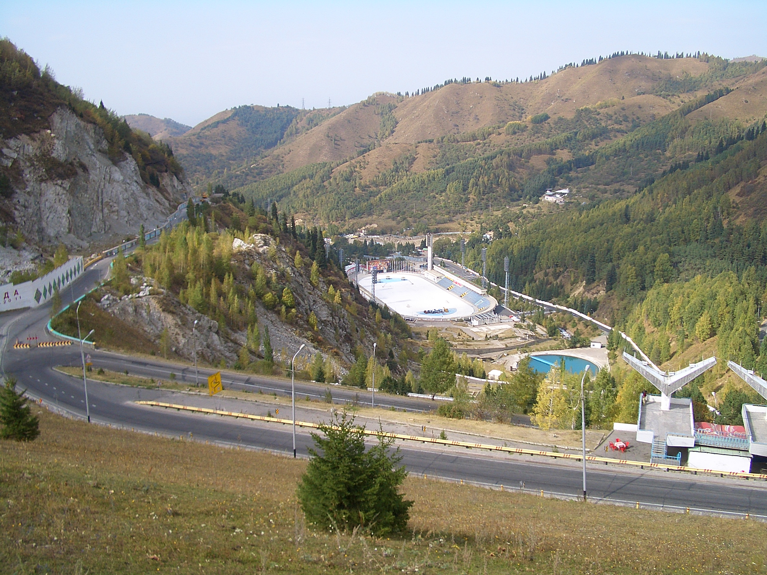 Medeu ice skating rink, seen from the anti-mudflow dam